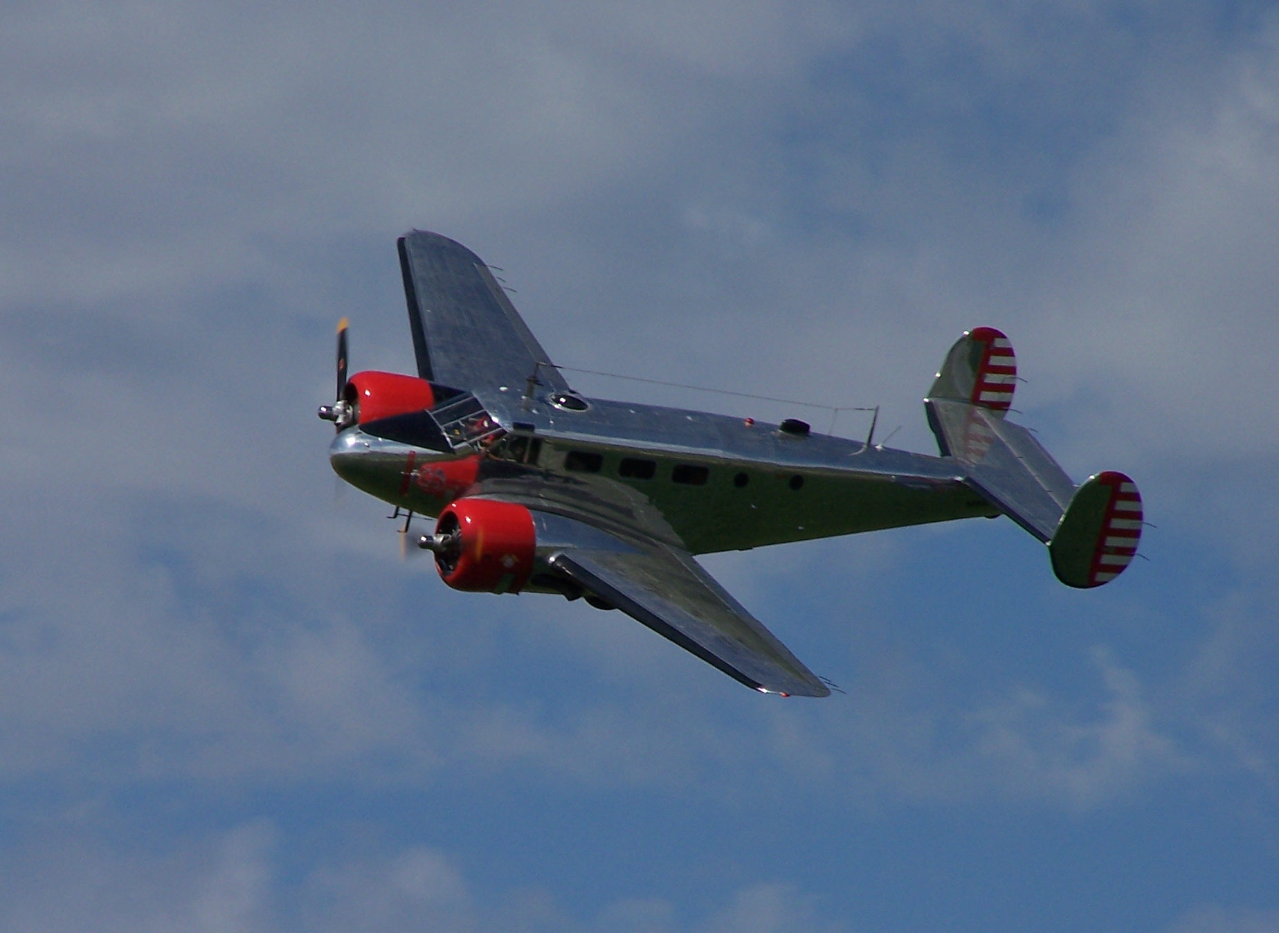 Beech 18 N21FS EDMT 20080719